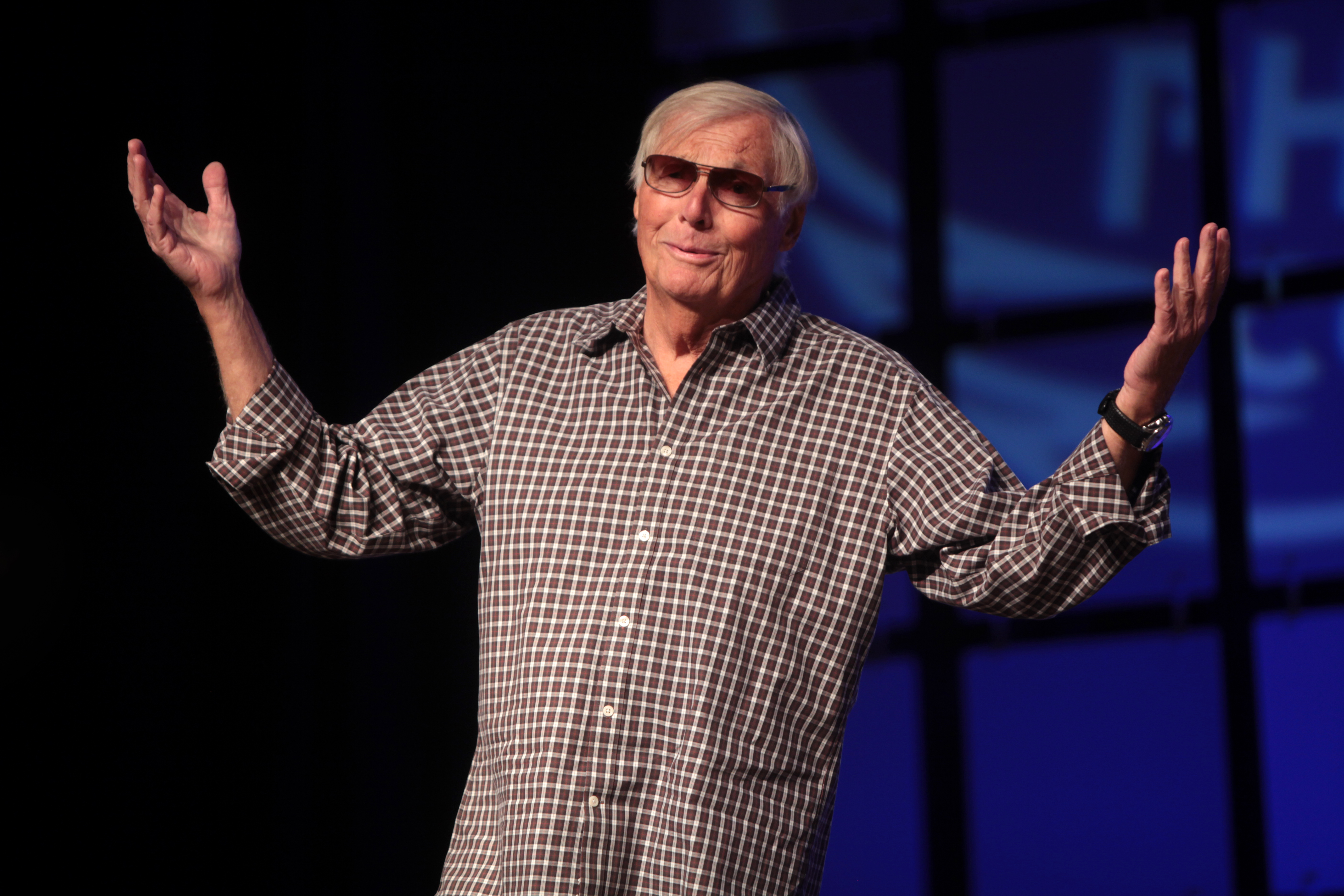 Adam West speaking at the 2014 Phoenix Comicon on June 7, 2014.